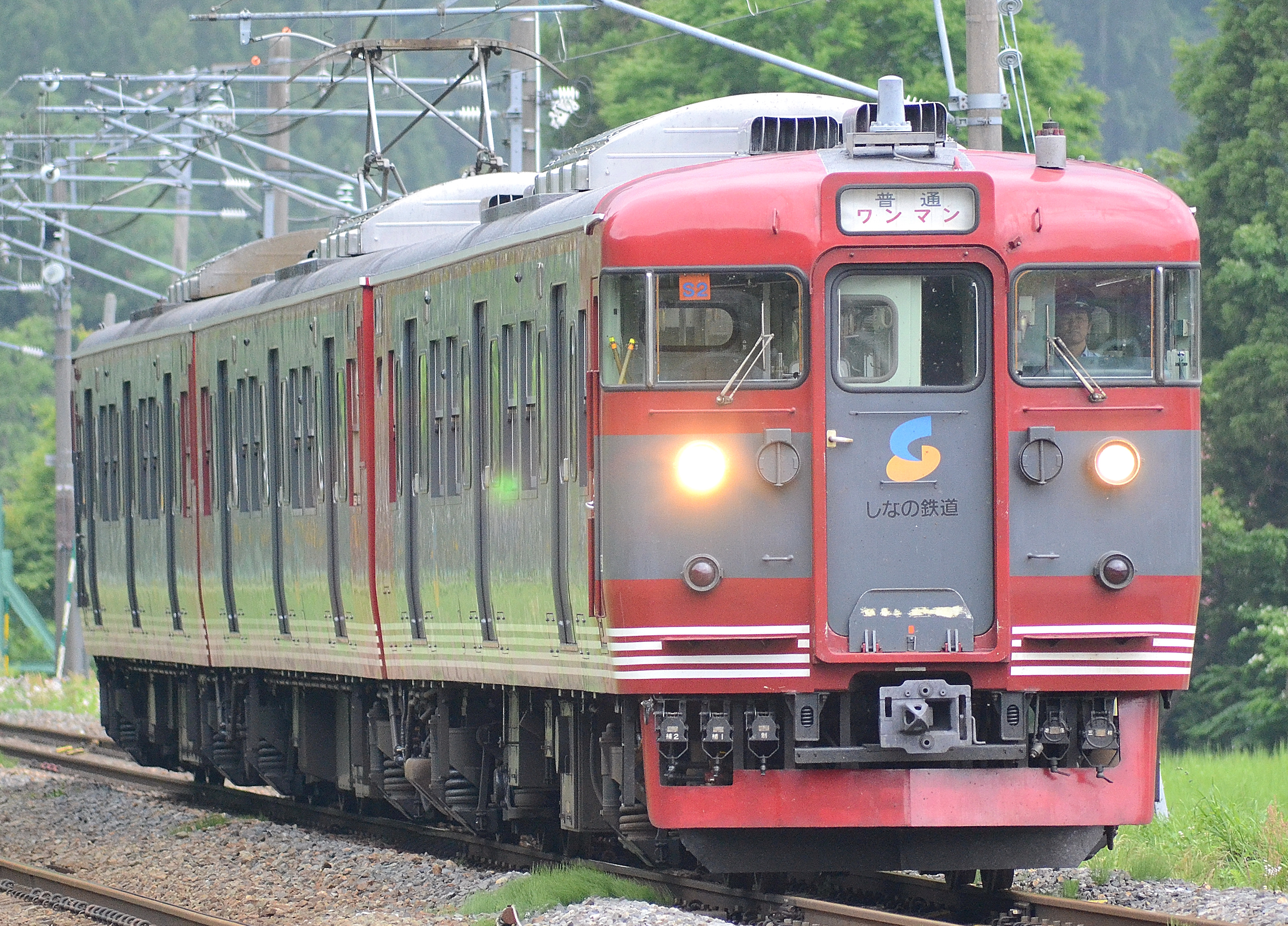 Shinano Railway 115 series EMU set S2 on the Kita-Shinano Line